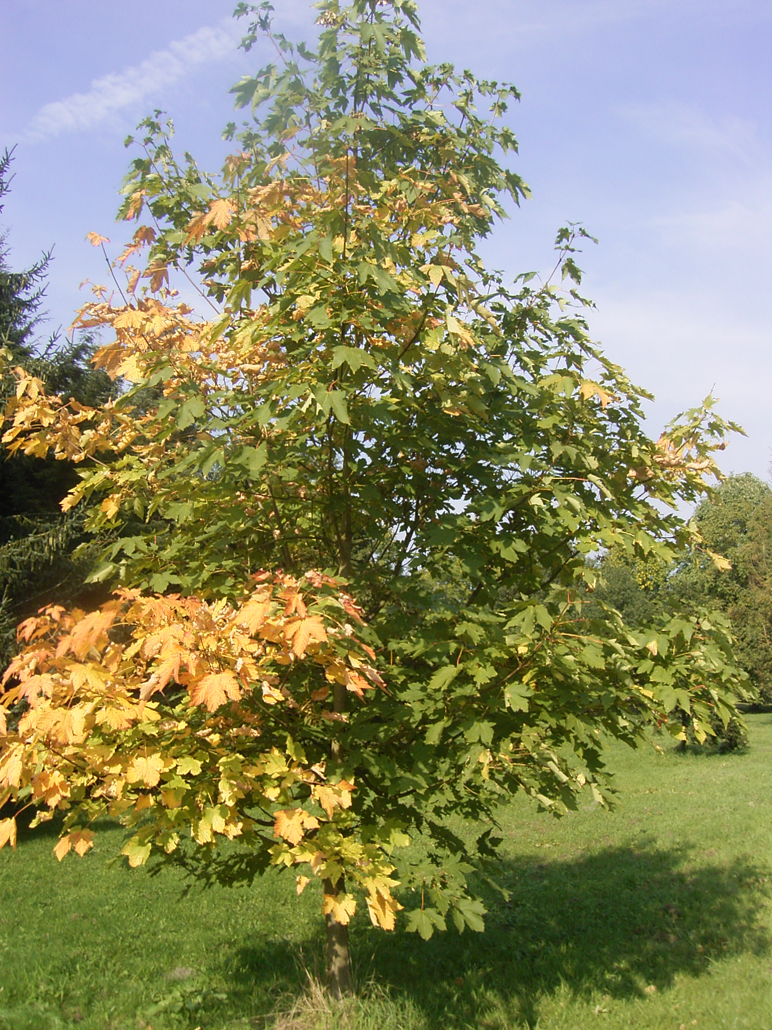 This photo shows Acer heidrechii